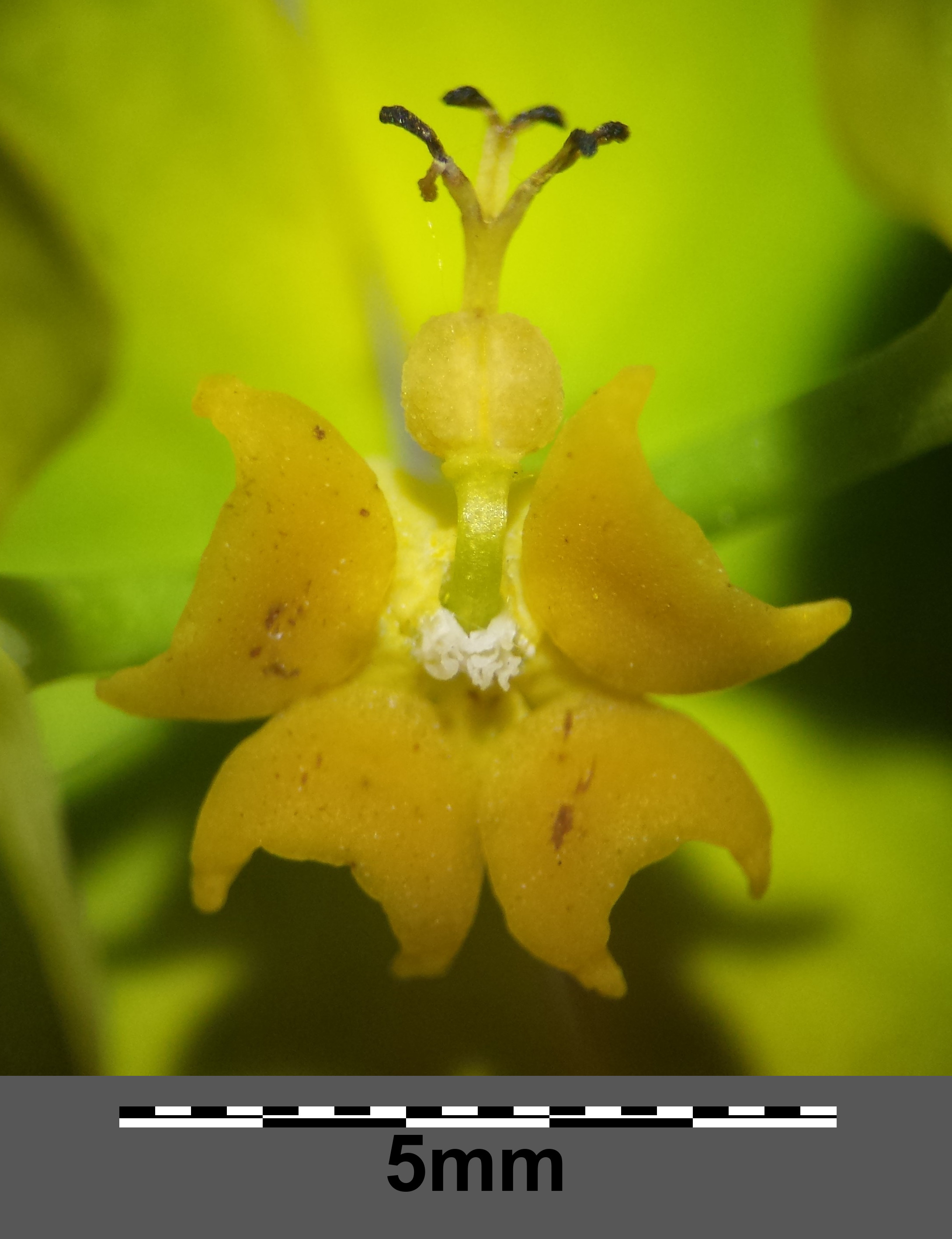 Fruit and glands Taxonym: Euphorbia esula ss Fischer et al. EfÖLS 2008 ISBN 978-3-85474-187-9 Location: Floridsdorf rail station, Vienna-Floridsdorf - ca. 160 m a.s.l. Habitat: sandy area